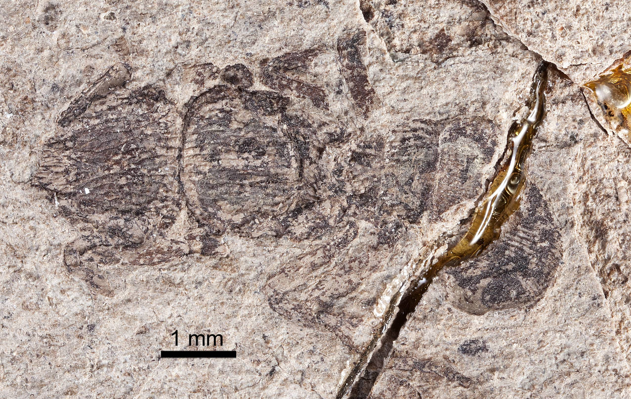 View of the Eulithomyrmex rugosus holotype. Museum of Comparative Zoology specimen UCM17019. Priabonian; Florissant Formation, Colorado, USA